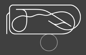 Modified from the original sourced from the official Vekoma website to add a background colour and additional helix found on some models.